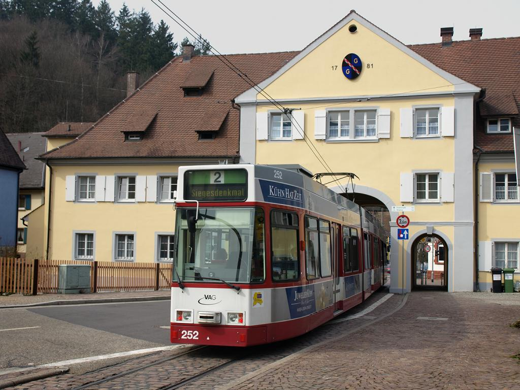 Freiburg in Breisgau,Günterstal with tram, Baden-Württemberg (Germany): , photo 2009